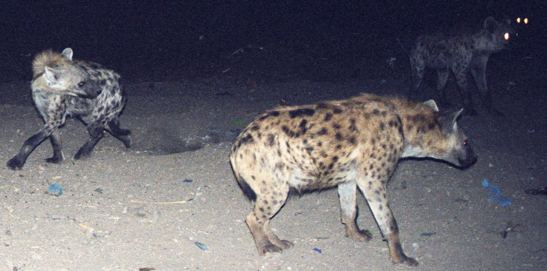 Several spotted hyenas in Harar, Ethiopia.